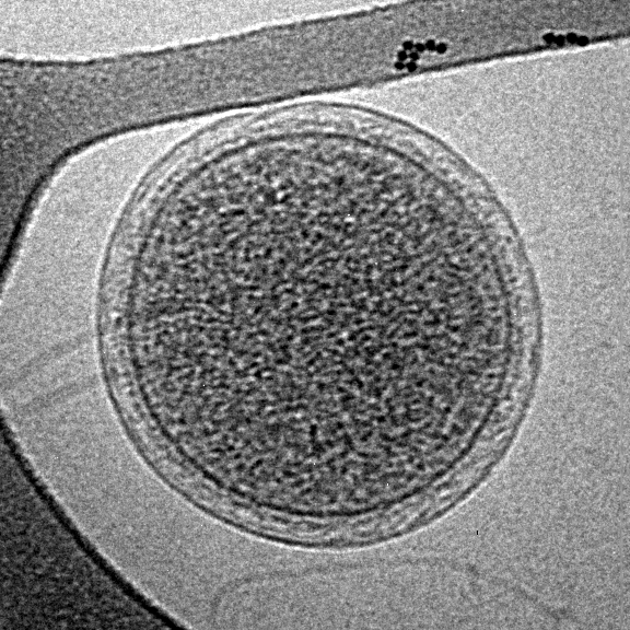 Cryogenic transmission electron microscopy (cryo-TEM) image of an intact ARMAN cell from an Iron Mountain biofilm taken by Luis R. Comolli. Scale: image 576 nm by side.